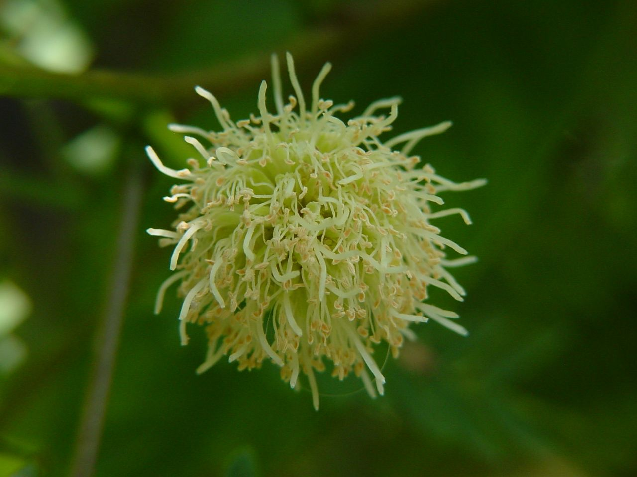 This was a mystery, but thanks to Kay of the Sewing List, we now believe it to be identified as Leucaena Leucocephala Mimosaceae, a kind of Mimosa probably originally native to Texas and Mexico. That would make it slightly out of place in Monrovia, California, but not outrageously so.